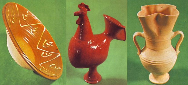 Pottery of Almería (Spain)